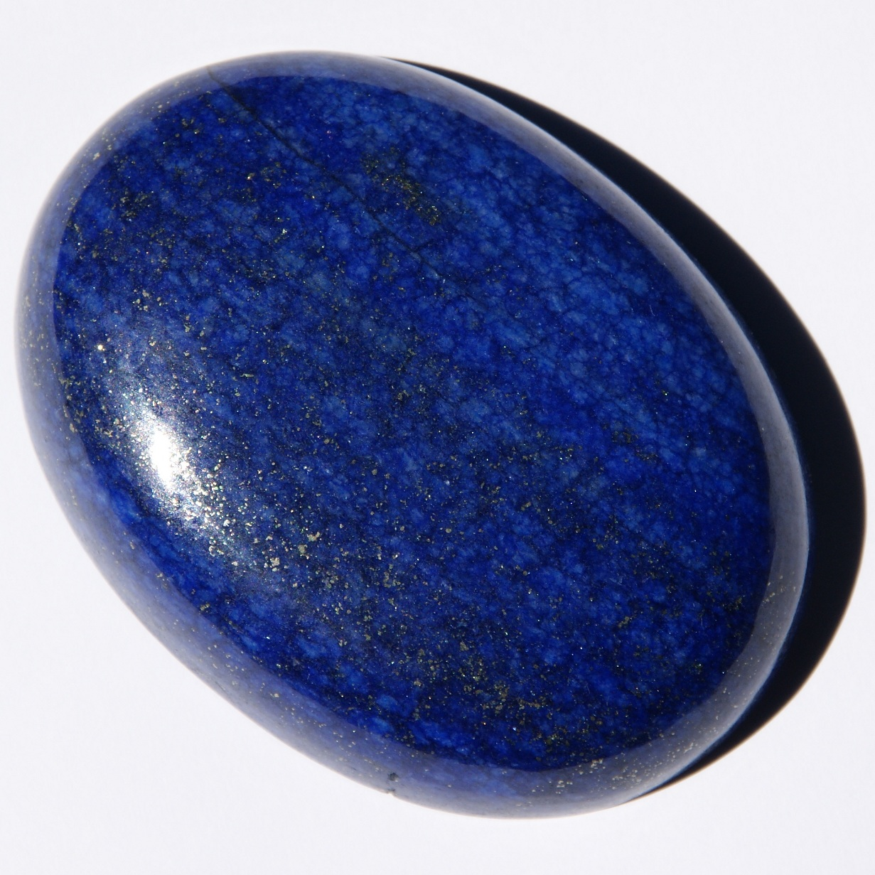 Lapis lazuli, a complex mineral mixture. The blue color is caused by S3- radicals. 115 grams, 5 x 7 cm.